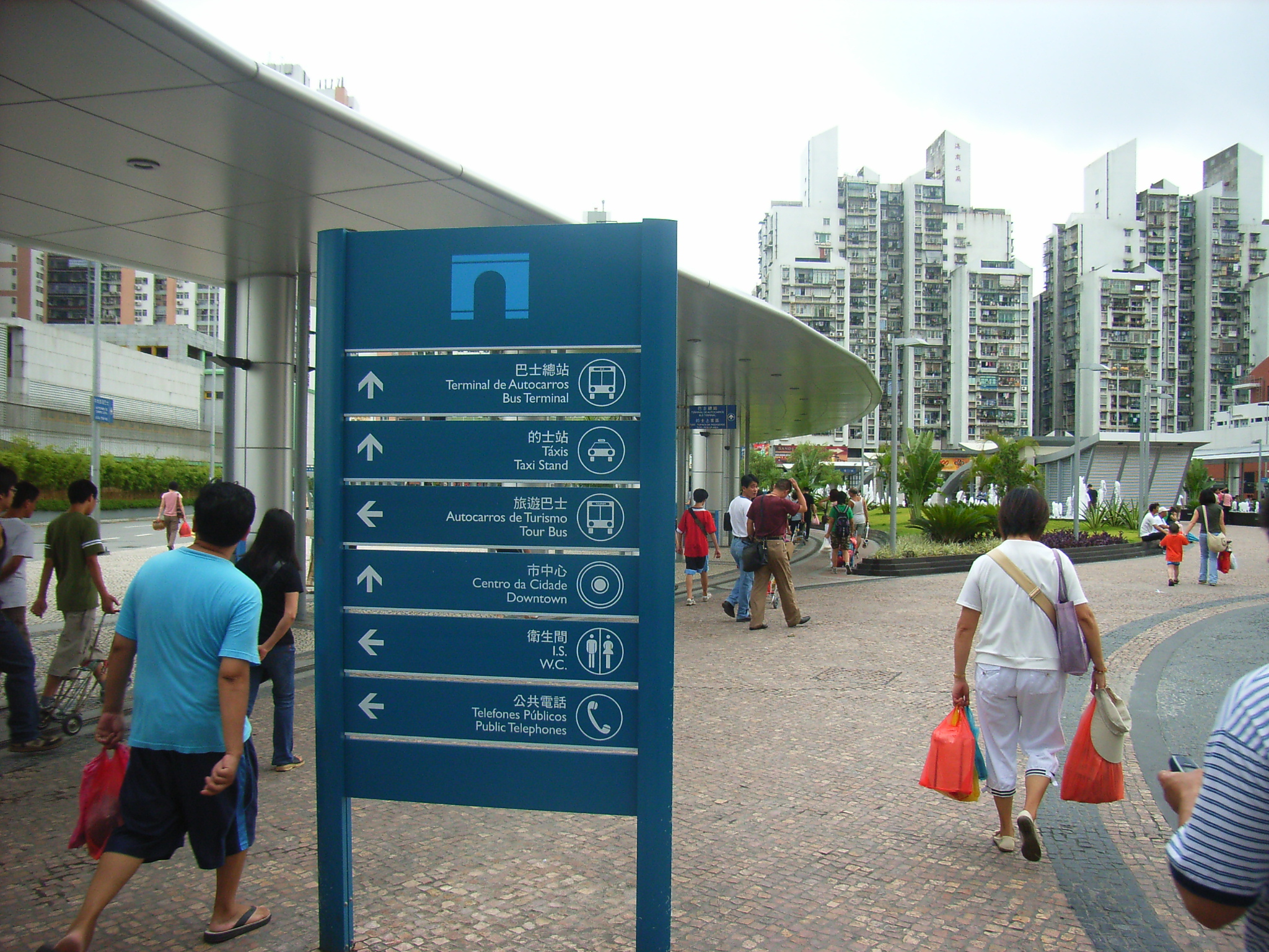 澳門的關閘口區 Macau sightseeing the gate